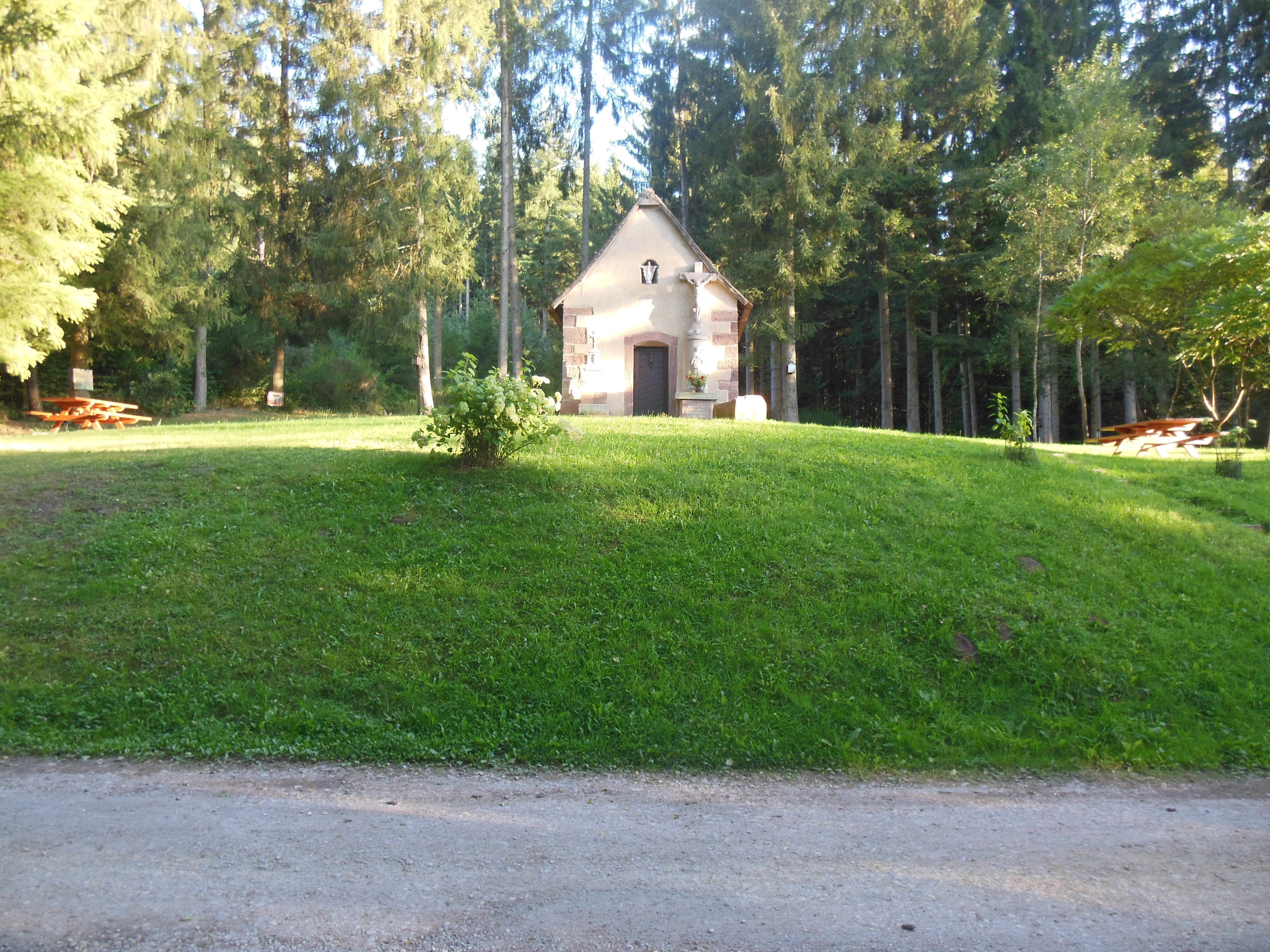 Pauluskapelle in Soucht